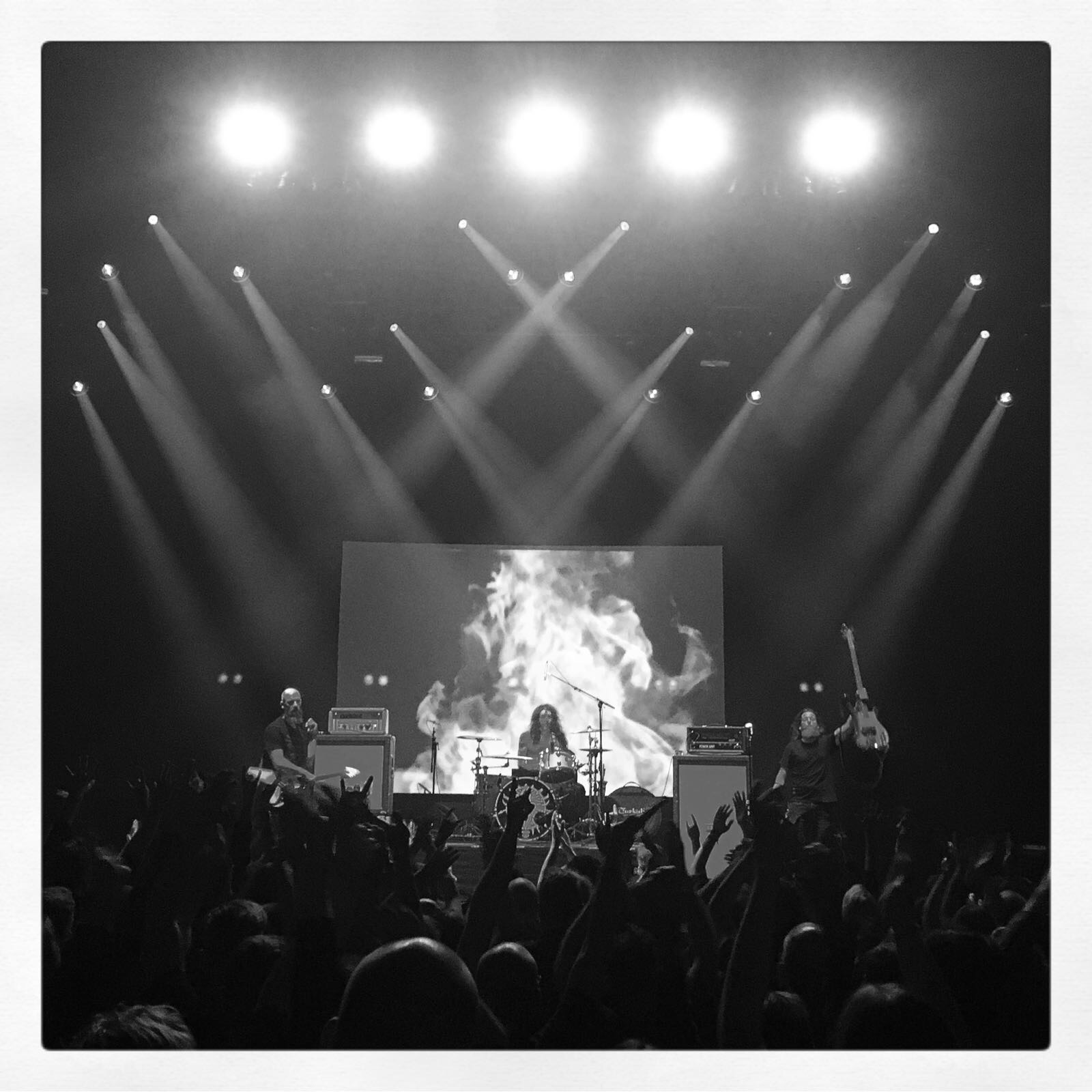 Ufomammut live at Soulcrusher Festival @ Doornroosje 08.10.17 - Nijmegen (Netherlands)